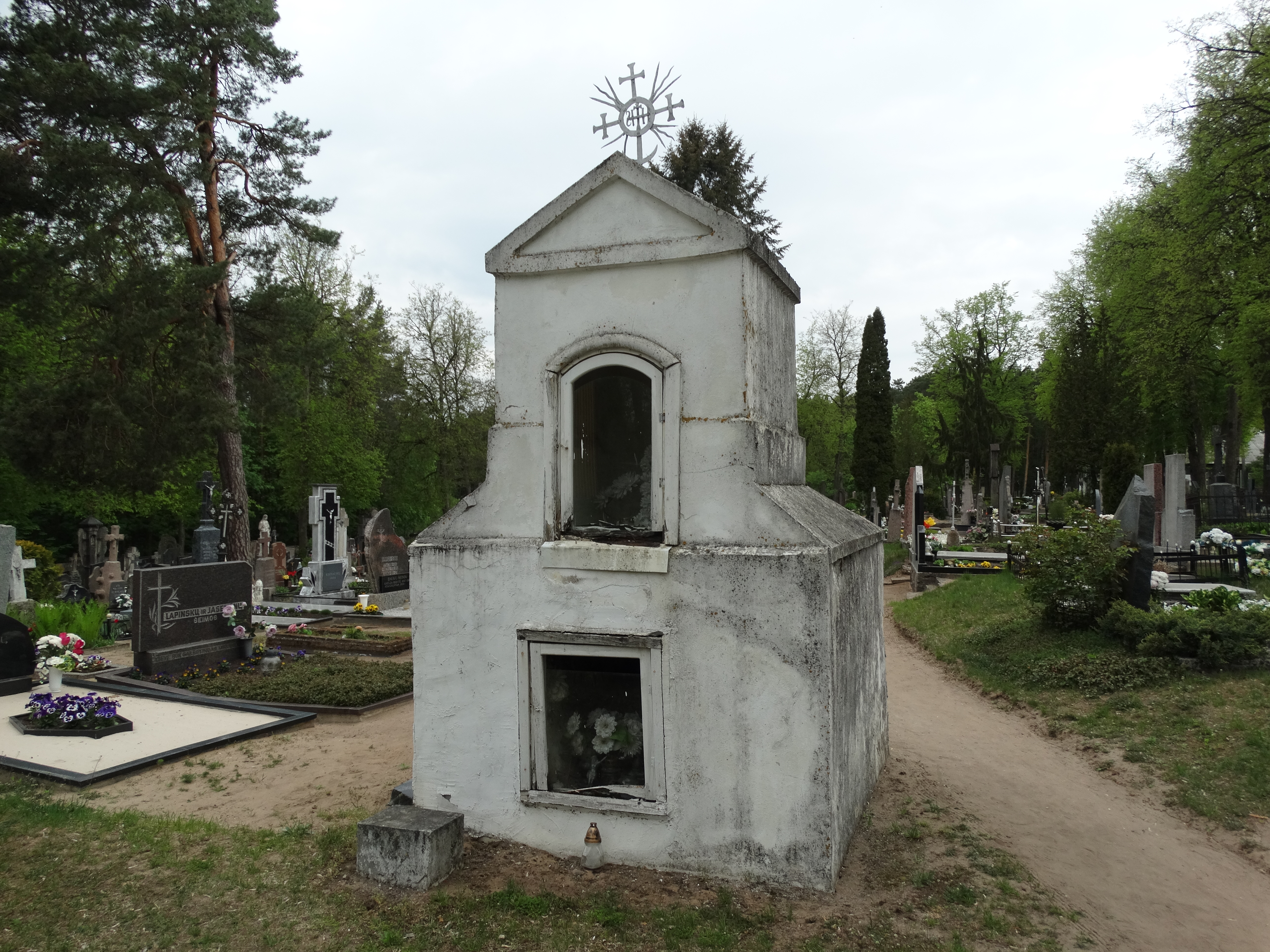 Rozalimas, cemetery, Pakruojis District, Lithuania